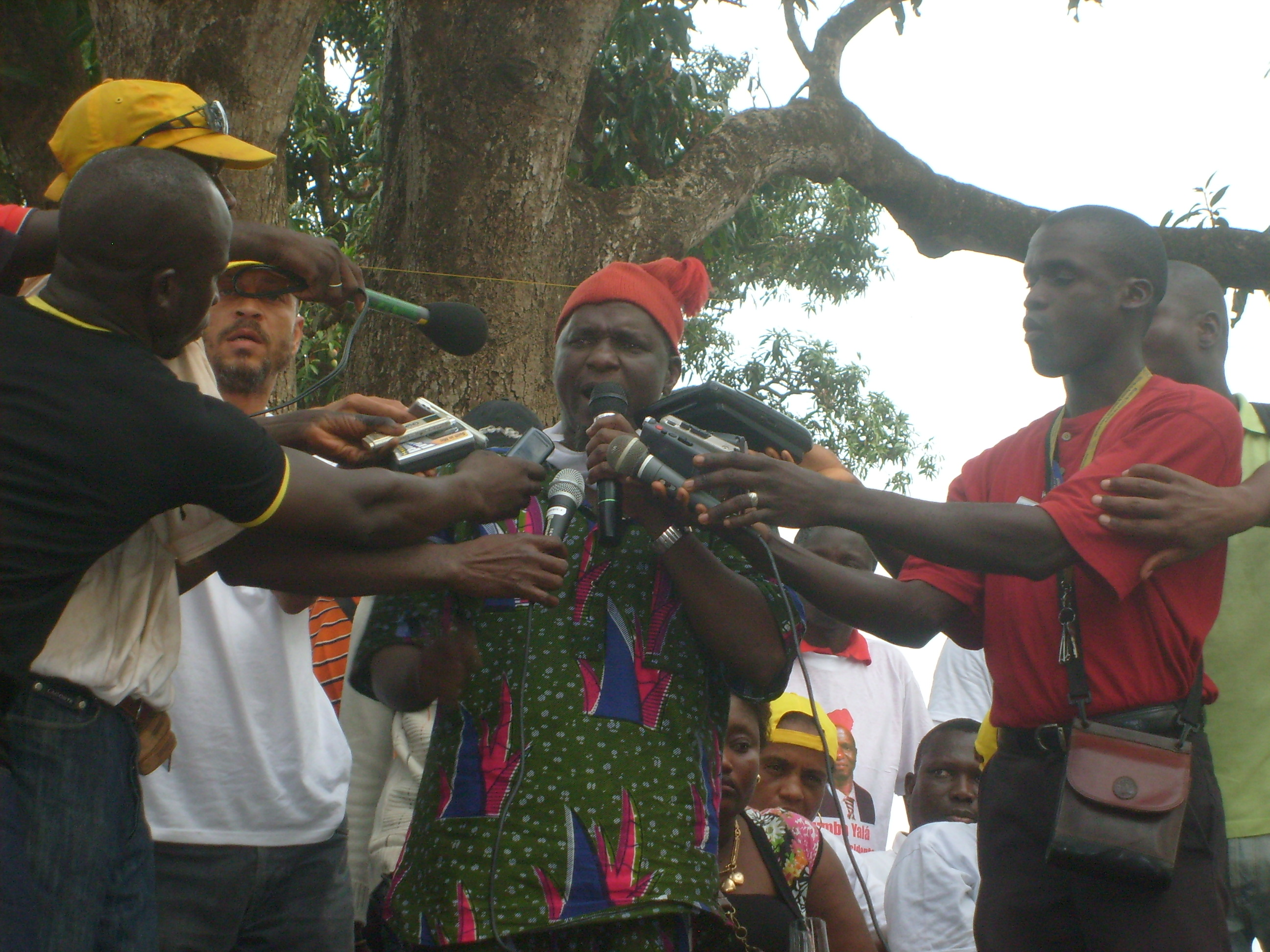 Koumba Yalá, presidential candidate in Guinea-Bissau is campaigning in 2009